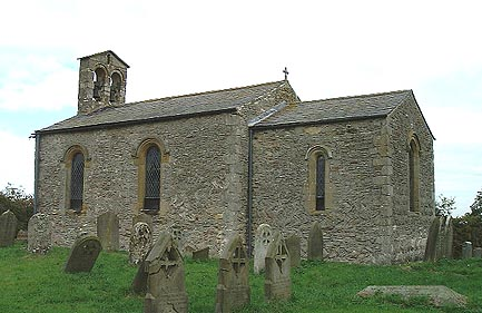 St Nicholas' parish church, Littleborough, Nottinghamshire, seen from the south